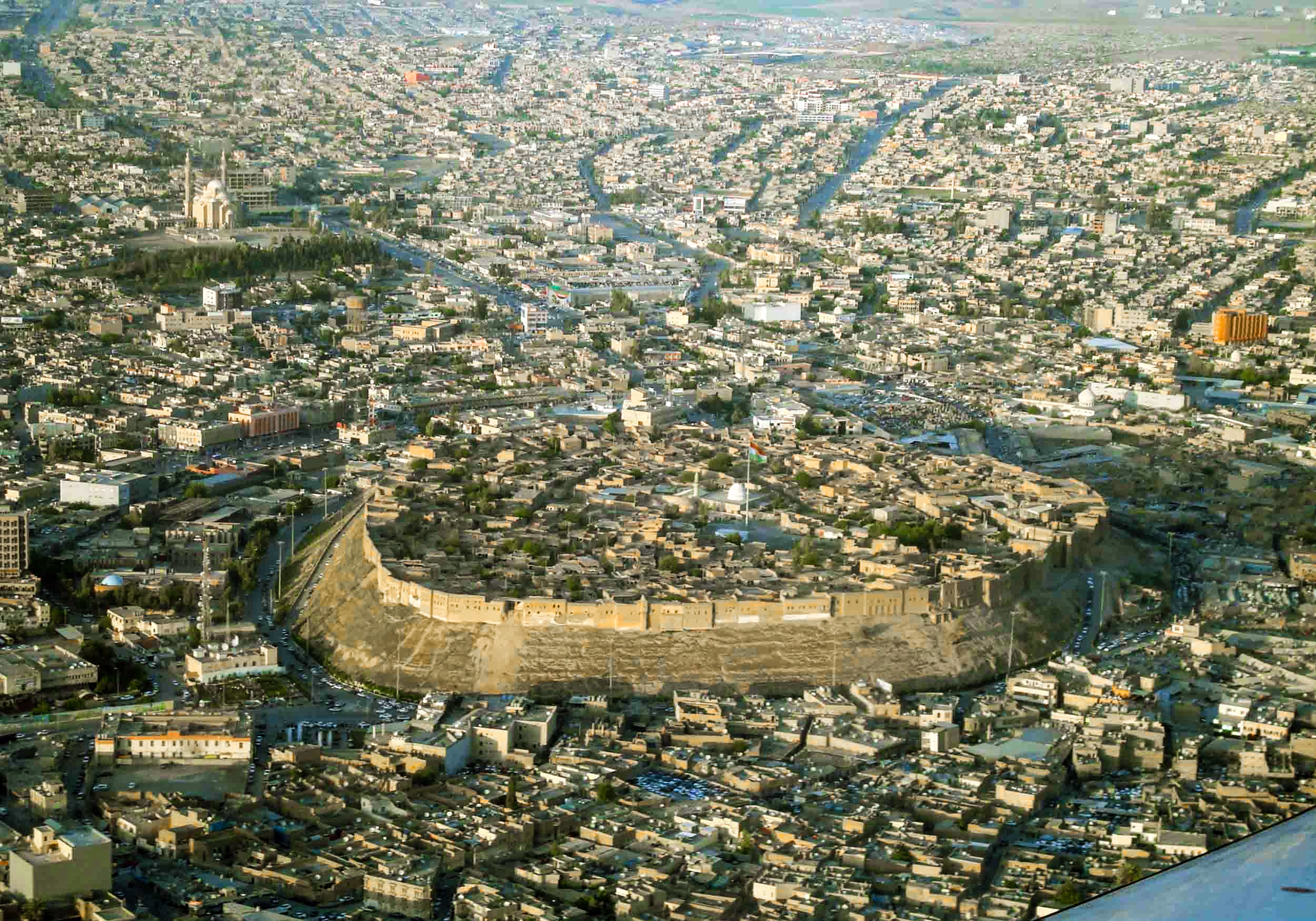 View of the castle in the middle of Hawler,Kurdistan